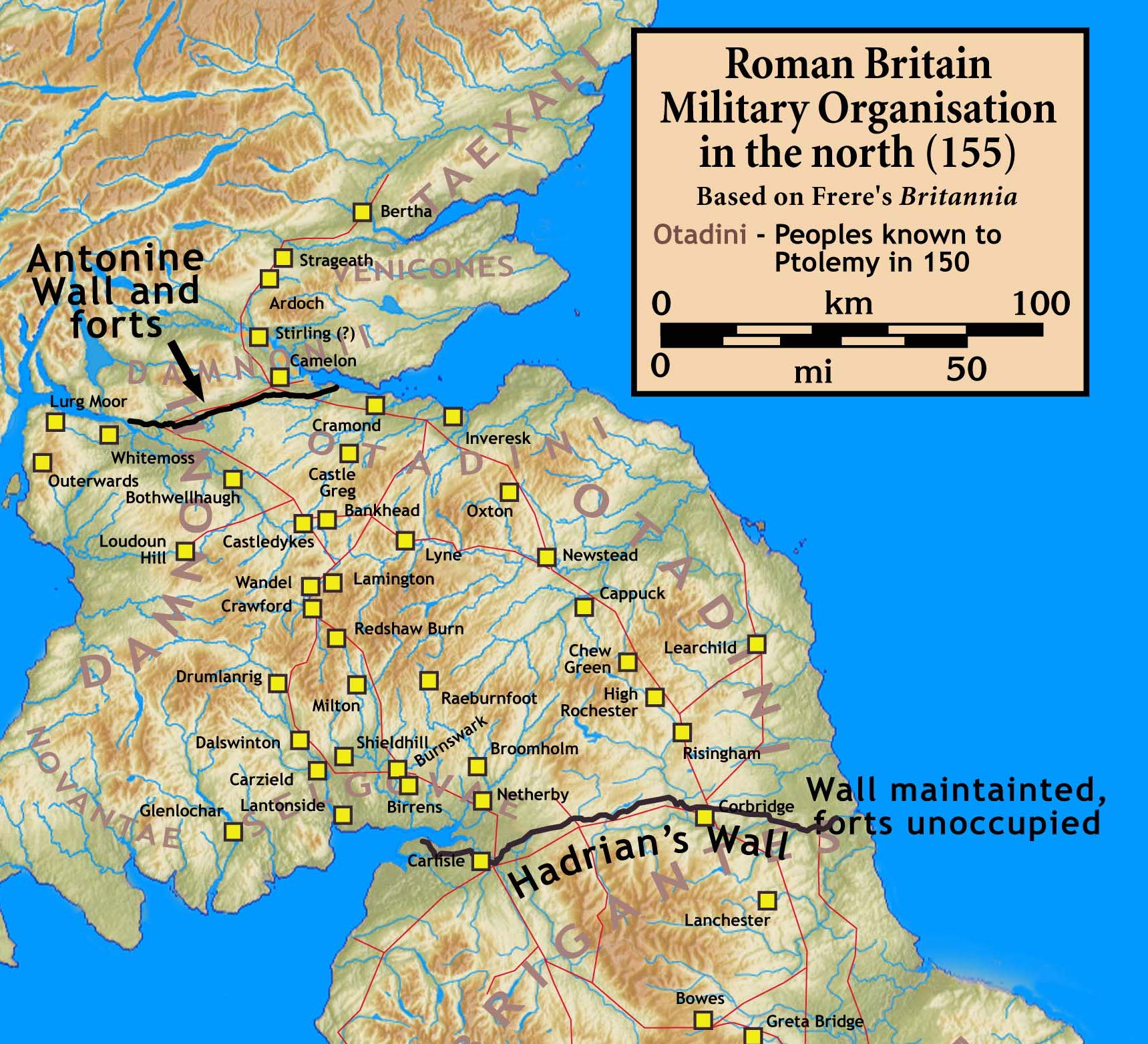 Roman Britain, Military Organisation in the north (155)